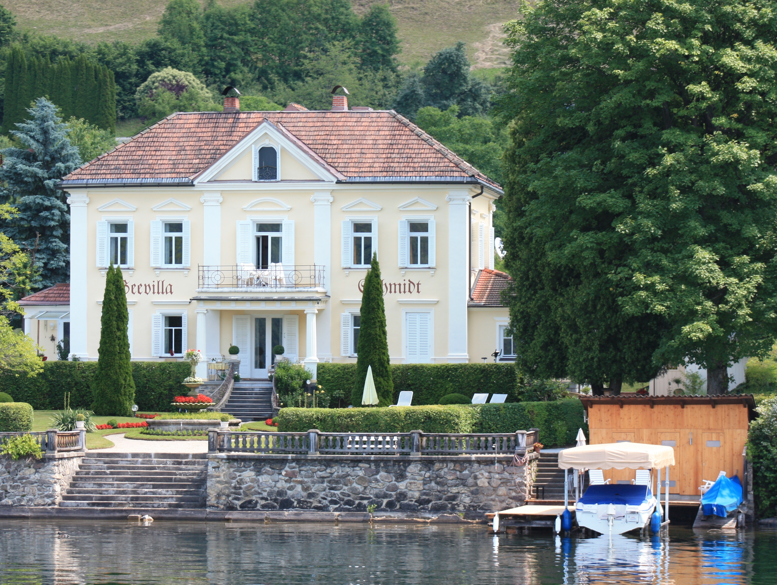 Seevilla Schmidt Locality: Dellach Community:Millstatt